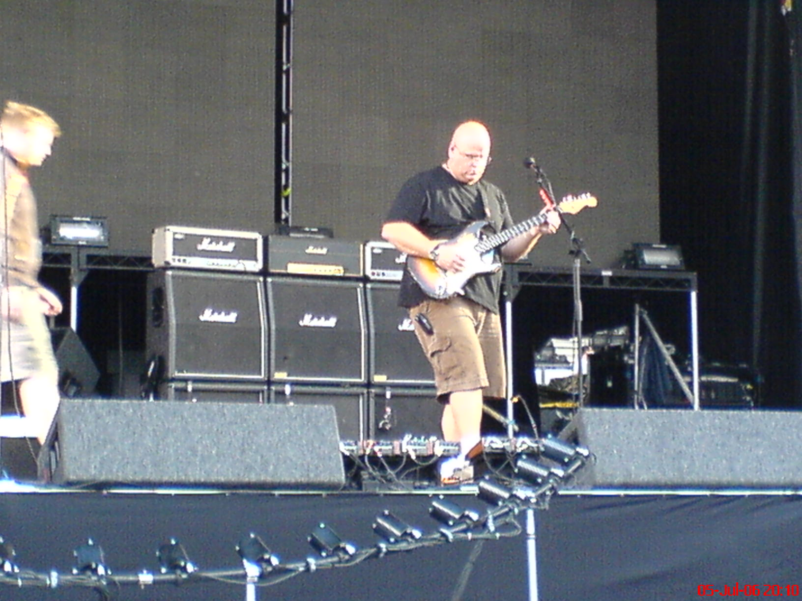 Frusciante's tech guitar manager